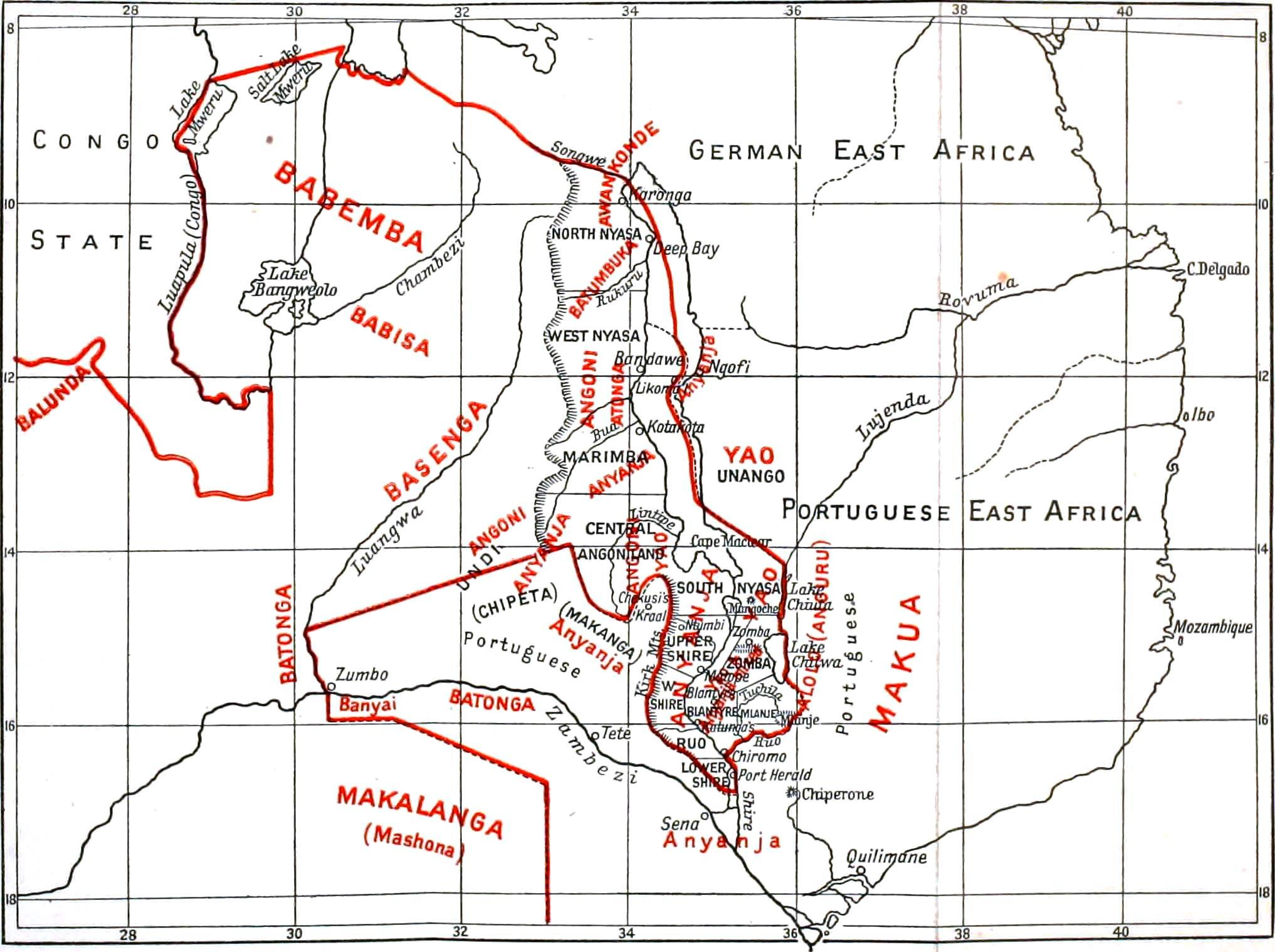 Native tribes of Malawi Title: The natives of British Central Africa Year: 1906 (1900s) Authors: Werner, Alice, 1859-1935 Subjects: Ethnology Publisher: London : A. Constable and Company, ltd. Text Appearing Before Image: .CJ)elgQdo lalbo iMozambigue .M. Text Appearing After Image: INDEX Abanda (Yao clan), i6o, 253. I Abstinence from certain foods, i 94-6. ; Achikunda (Chikundas), 24,61,95. \Achipeta, 25 ; their tobacco, 17S ; their country, 281. Adultery, 152, 265-6. Agnatic descent (chilawa), 253. Ajawa. See Yaos. Alolo (Anguru), 24, 32, 33. their tribe marks, 39. Alunda, 25. Alungu, 25. Ancestral spirits, 4^^ et seq., 54, 62-66. Angoni, 24, 29, 34, 35. their prayers and sacrifices, 53. harems of chiefs, 132. chiefs order wholesale vfwavi- drinkings, 170. war-dance, 228. migrations, 278-2S5. raids, 283-4. Animals as witches' messengers, 84, 169. in folklore, 231 et seq., reserved for chiefs eating, 272. Anls, white (termites), 22, 191; used as food, 137, 192. omens drawn from, 94. Ant-eater, 17, 272. Anyanja, 24 et seq., 277. subject to Angoni, 29, 35, 272. Anyanja conquered by Makololo, 37, 268-9. their worship, 63. their chiefs, old gods of the land, 51, 58. villages, 99 et seq. betrothal and marriage customs, 130 et seq. burial, 156, and Ch. vii. passim, tales, 231